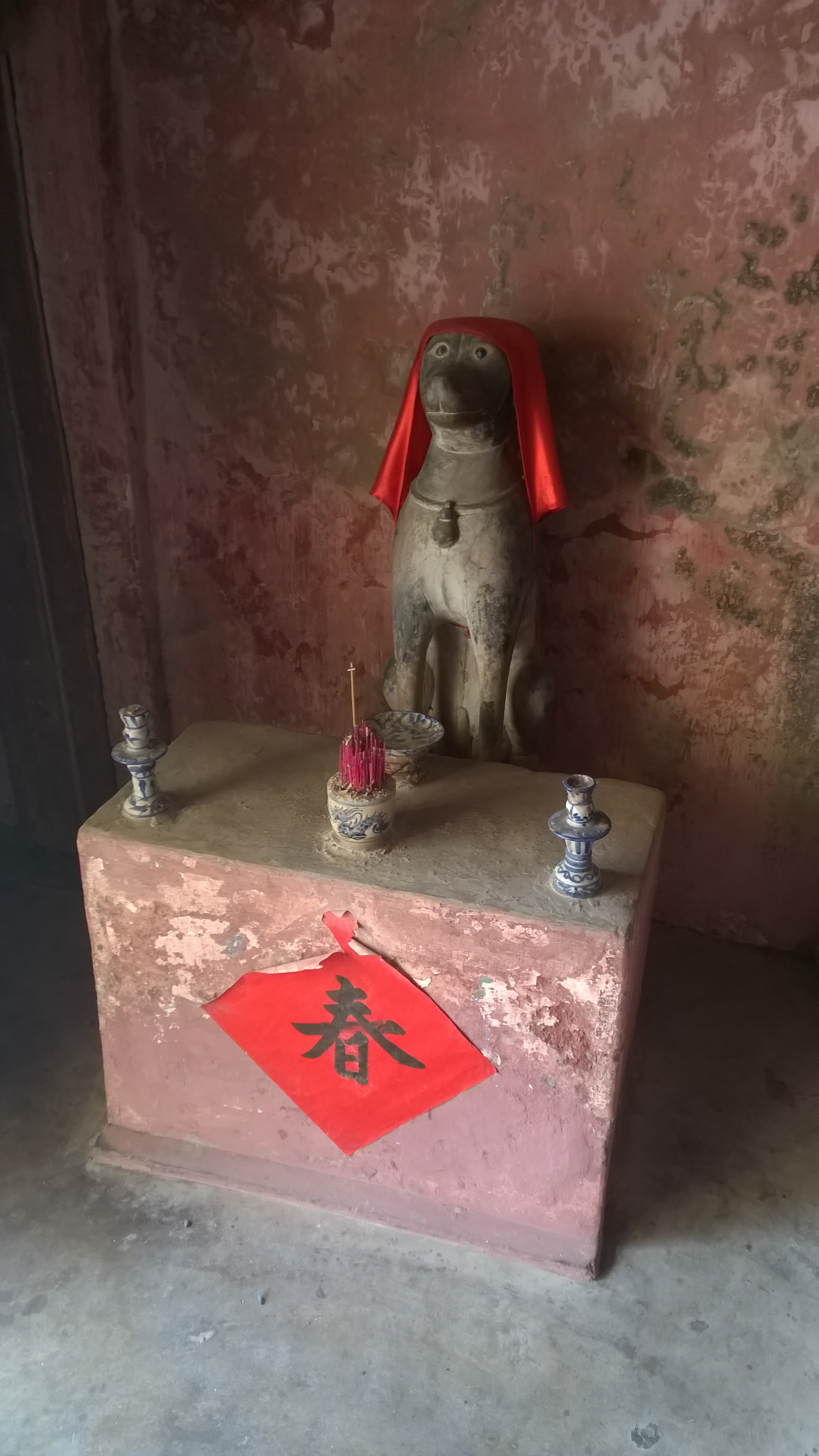 The Japanese covered-bridge of Hoi An in 2015.